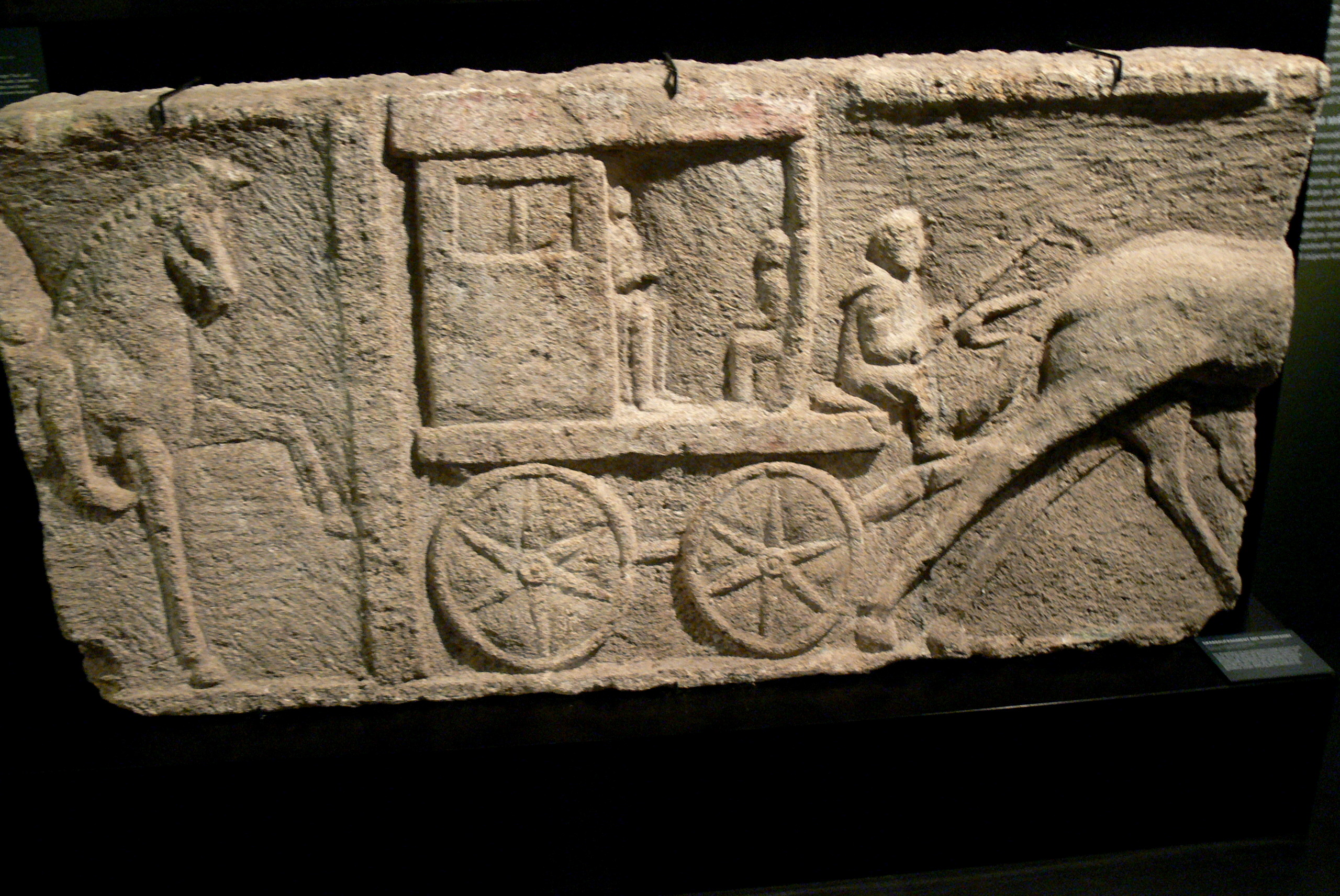 Museum Carnuntinum ( Lower Austria ). Funeral relief ( 2nd century ): Ancient Roman carriage.